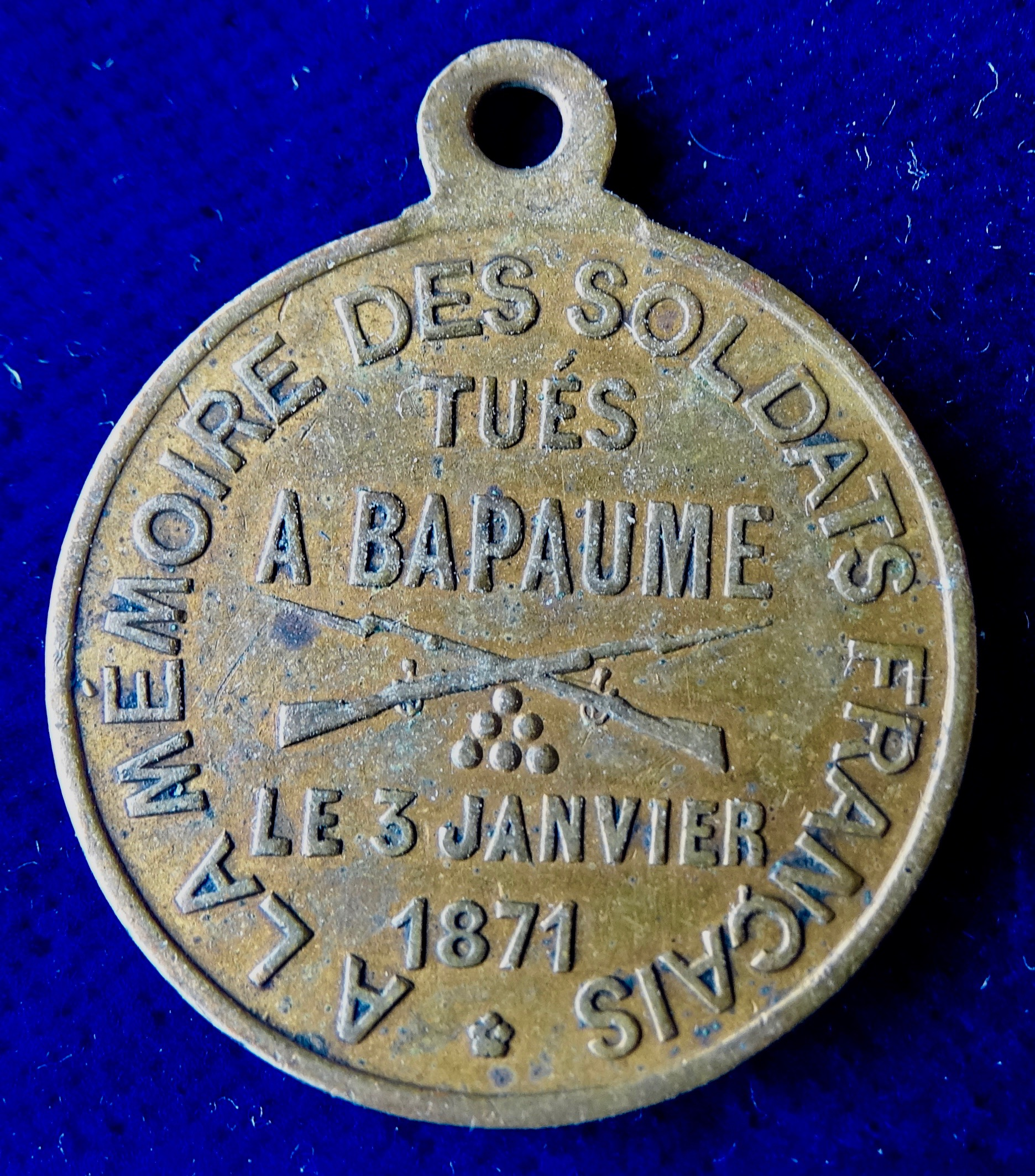 Franco-Prussian War, Battle of Bapaume (1871) French 1st Anniversary Medal 1872. Bronze, d. = 23 mm. General Louis Léon César Faidherbe at the head of the Northern Army stopped the Prussians. 3 lines above 3 graves: "ANNIVERSAIRE DE LA BATAILLE", 2 lines below: "3 JANVIER 1872"/ 4 lines divided by 2 crossed rifles: "TUÉS A BAPAUME LE 3 JANVIER 1871". Surrounding: "* A LA MEMOIRE DES SOLDATS FRANÇAIS *". ND11660 Musée Carnavalet, Histoire de Paris. Condition: EXTREMELY FINE.